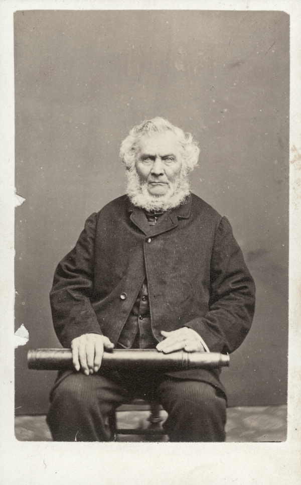 [George Evans with telescope] Davies & Co